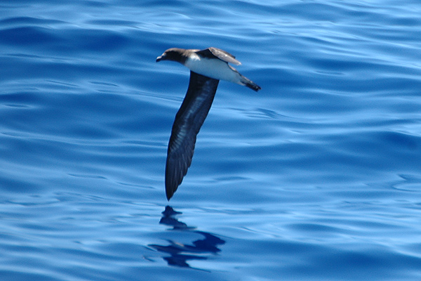 Tahiti Petrel (Pseudobulweria rostrata), off the Gold Coast, SE Queensland, Australia